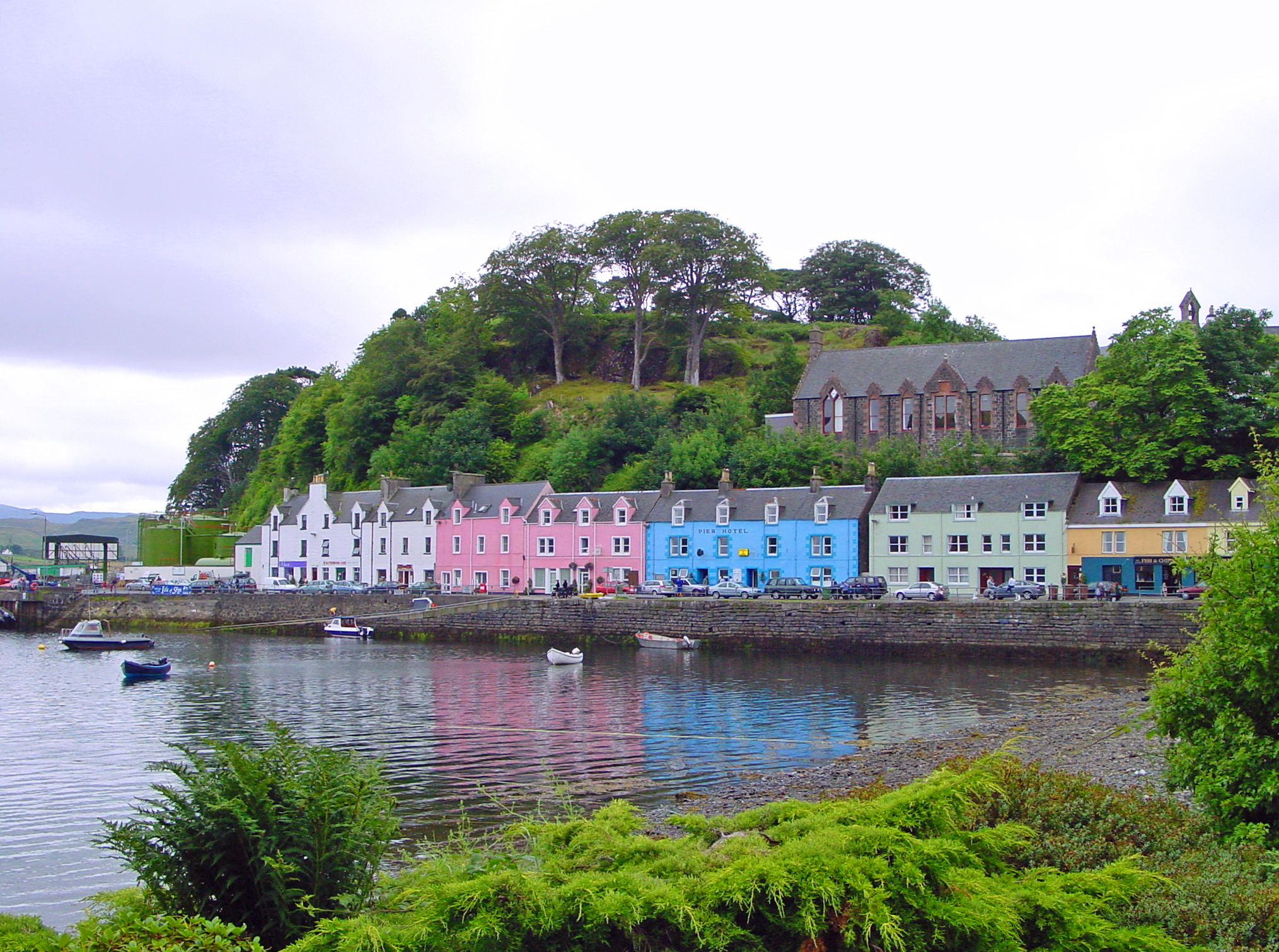 Harbour of Portree, Isle of Skye